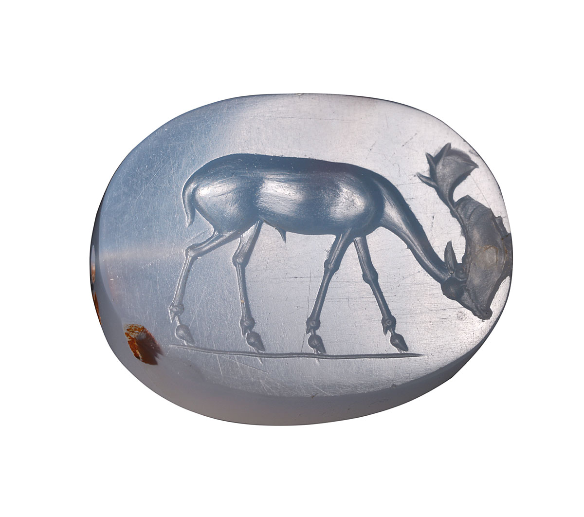 Chalcedony scaraboid. A deer